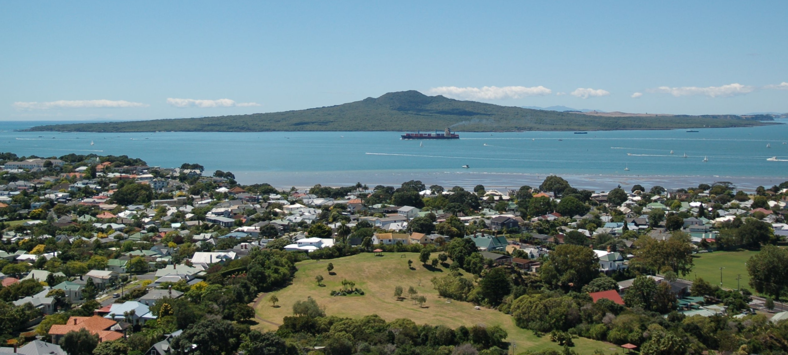 Rangitoto from Mount Victoria.